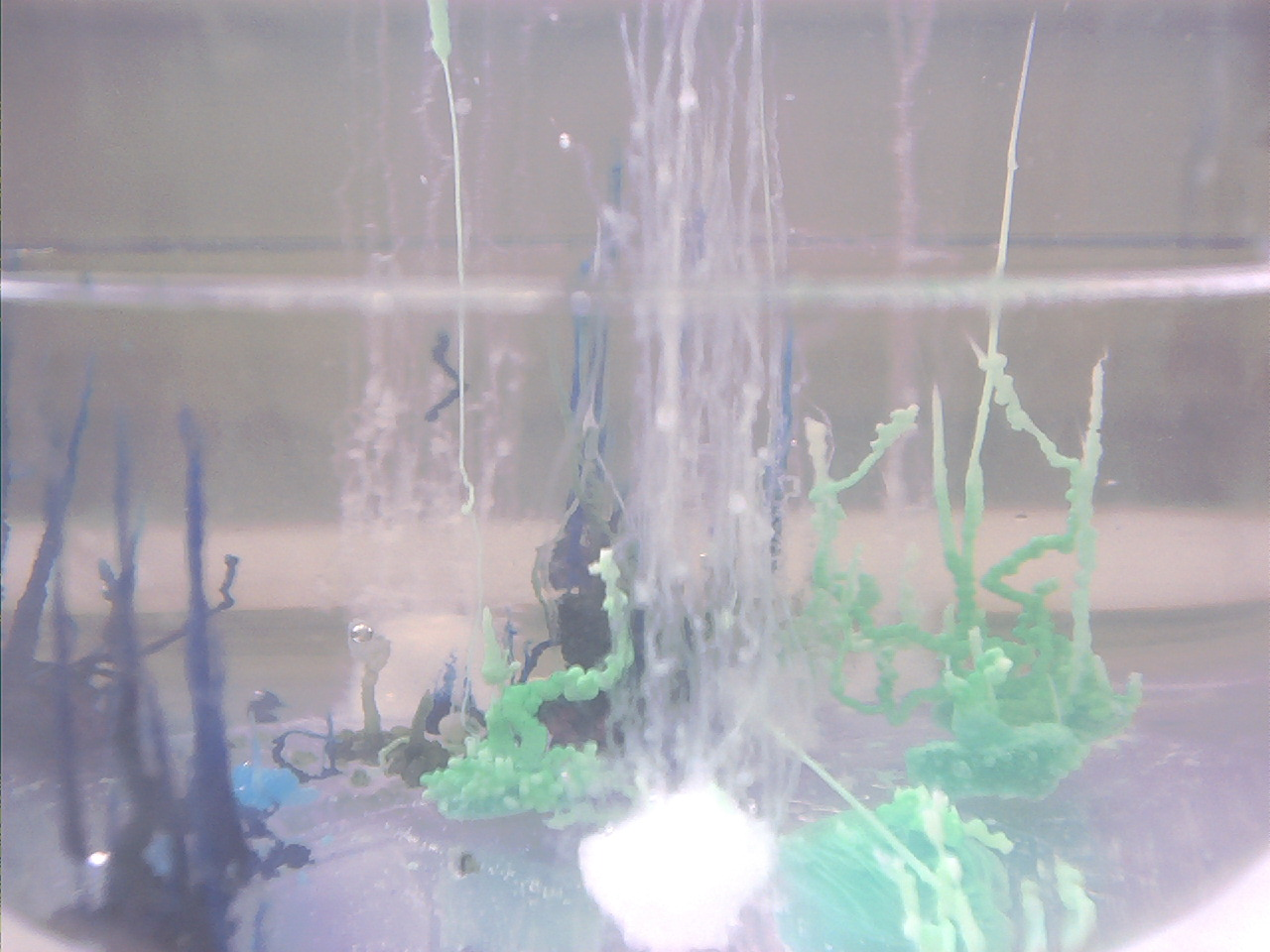 Chemical garden; solution of sodium silicate with copper, nickel, cobalt, iron and aluminum salts